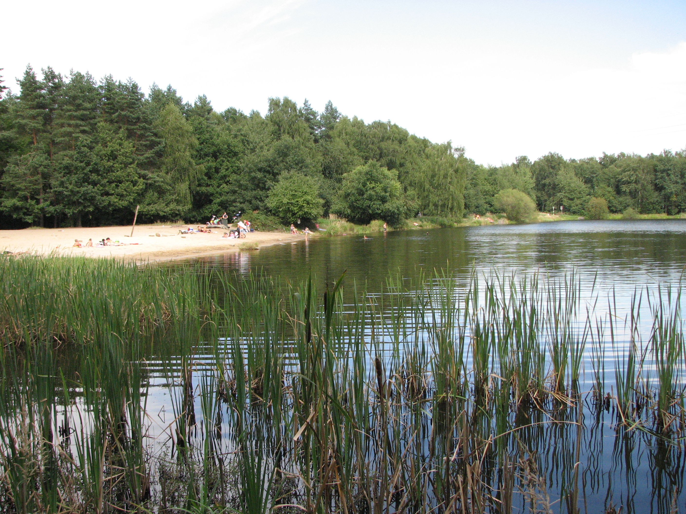 Pond Starganiec in Mikołów, Poland.